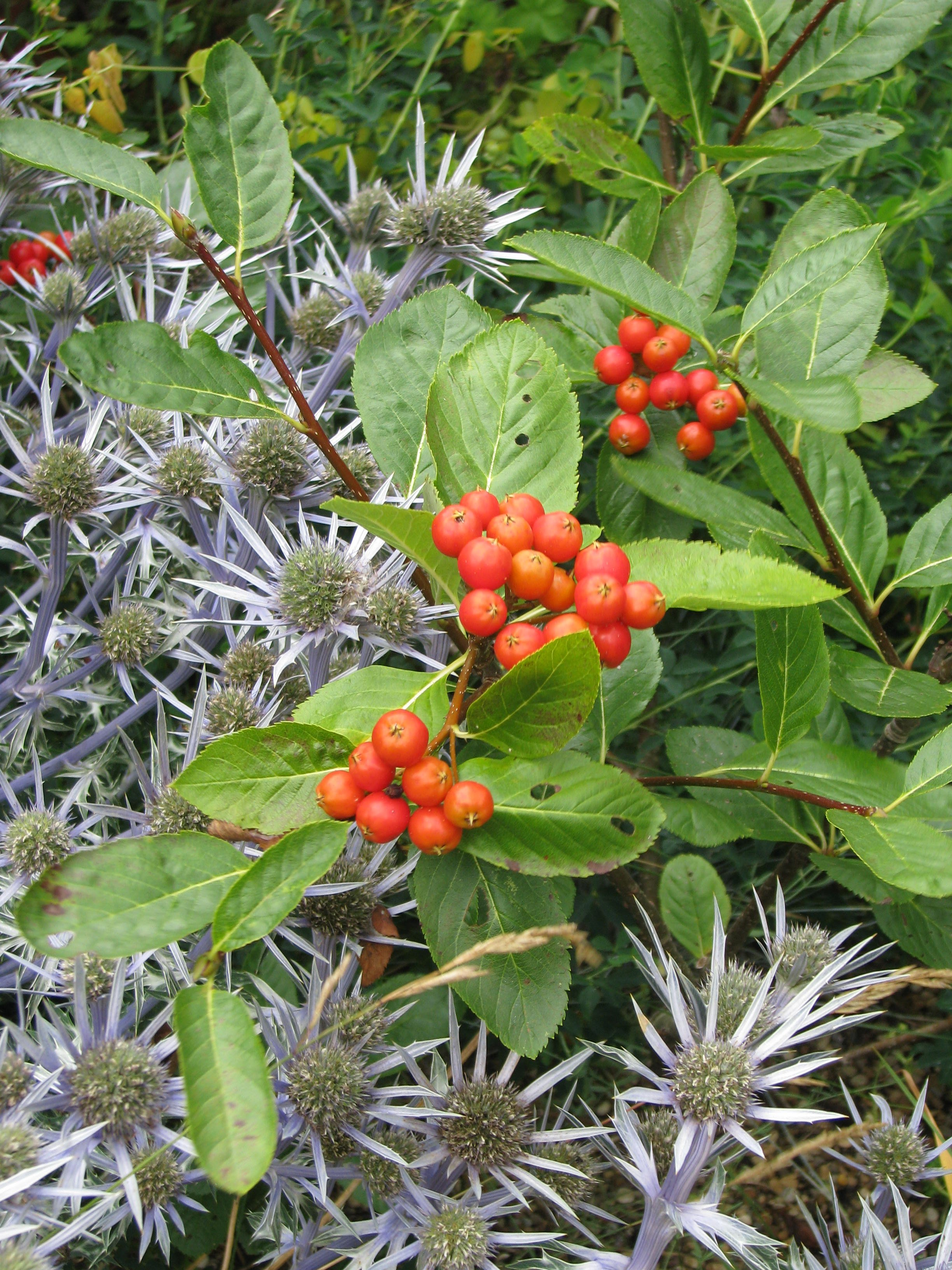 aka Sorbus chamaemespilus. A gorgeous little fruiting shrub